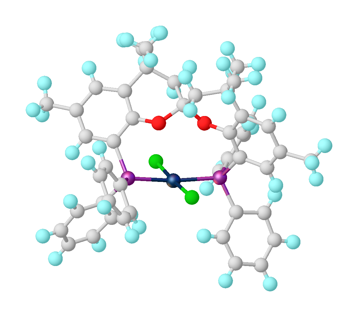 structure of PtCl2(Spanphos).